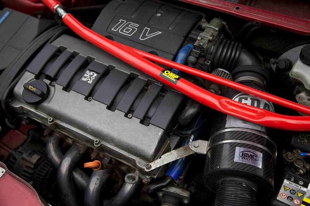 This is PSA TU5J4 Engine